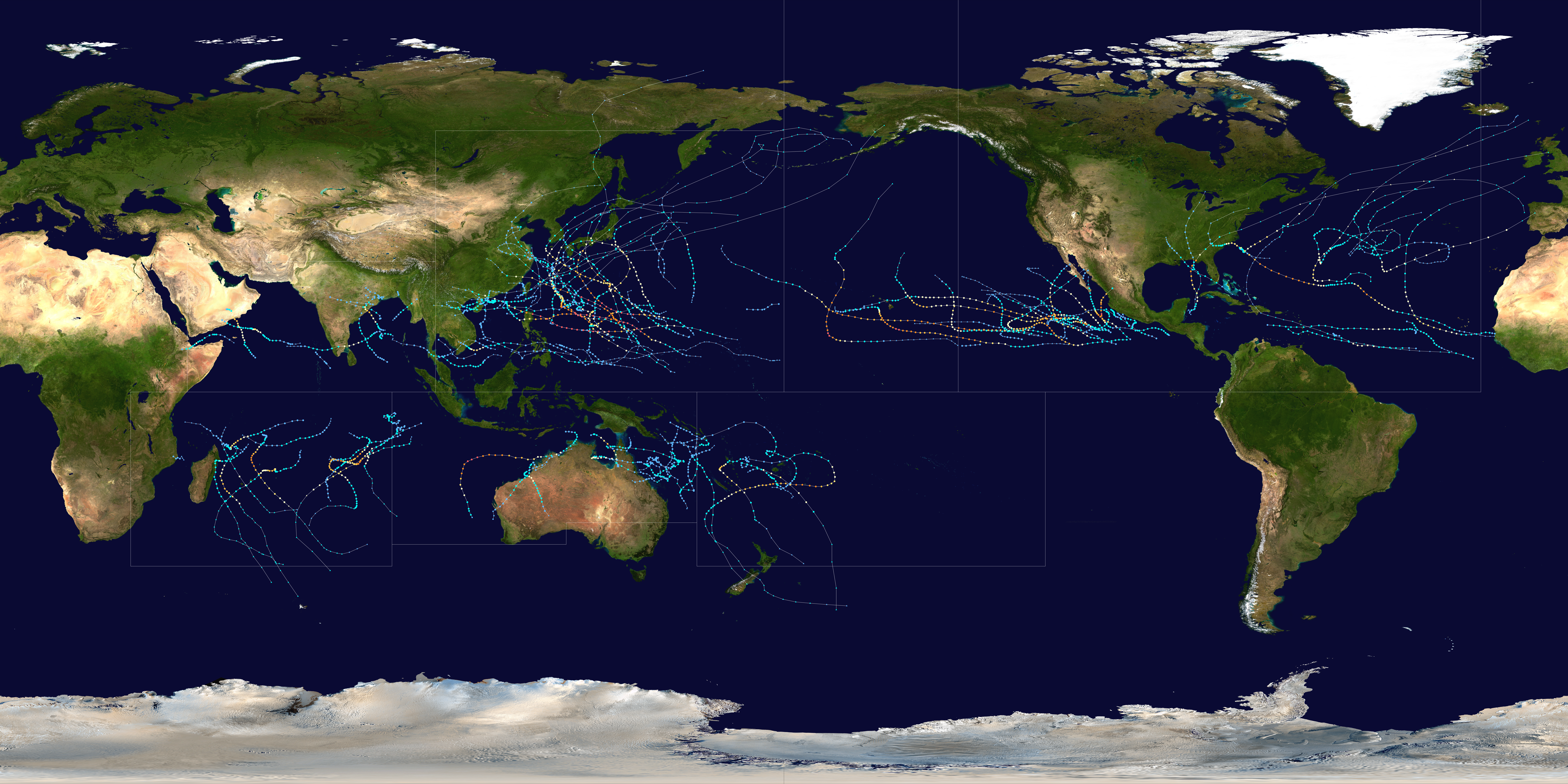 Tropical cyclones worldwide in 2018